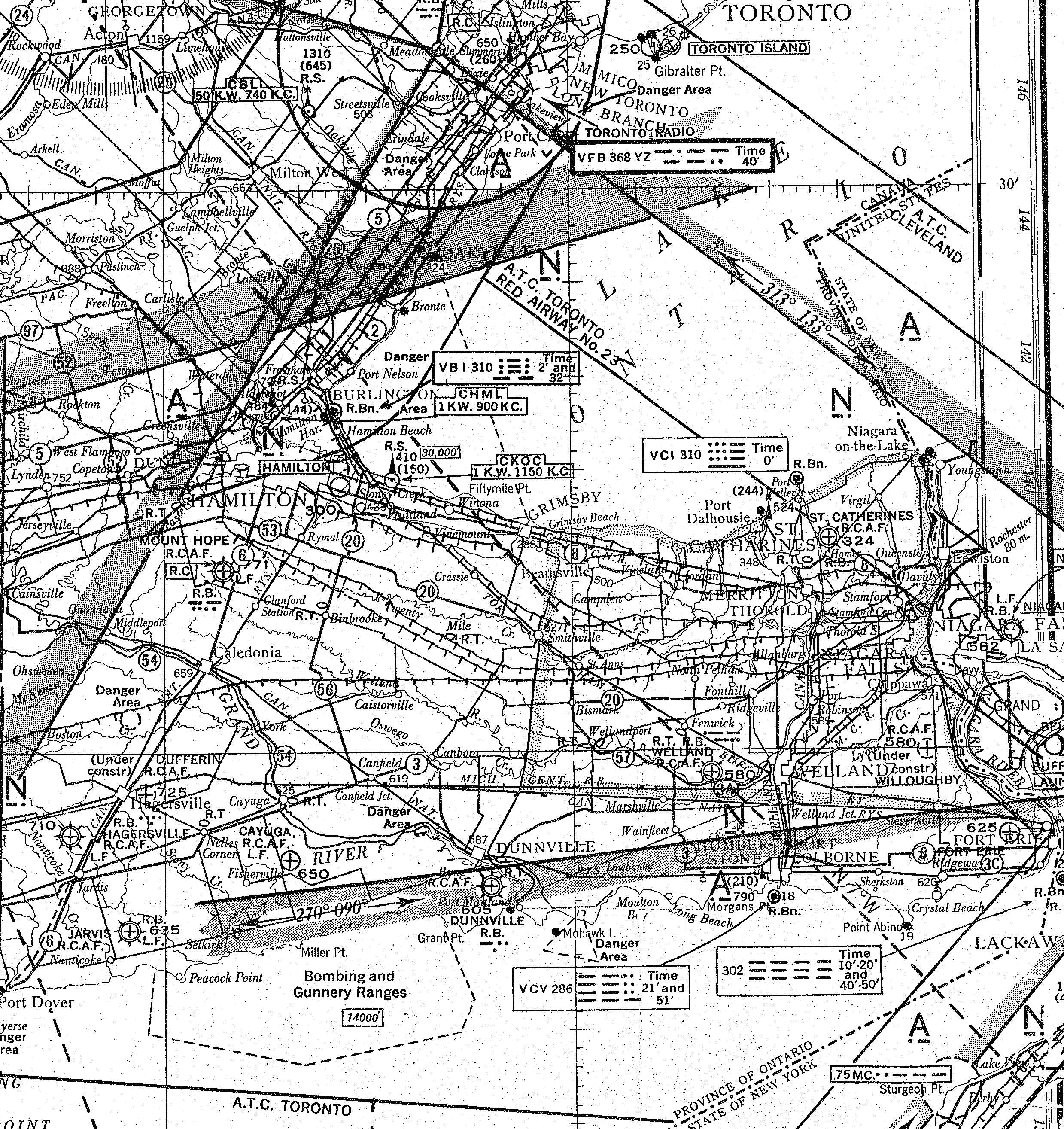 Piece of the 1944 Windsor-Toronto Air Navigation Chart showing RCAF Dunnville and its nearby relief fields, RCAF Welland and RCAF Cayuga.